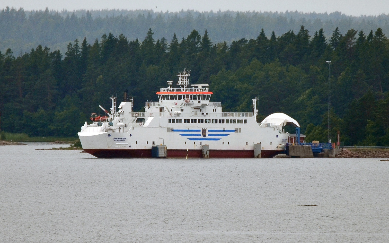 The ferry M/S Skarven (the cormorant) at the harbour Svinö, Åland islands.